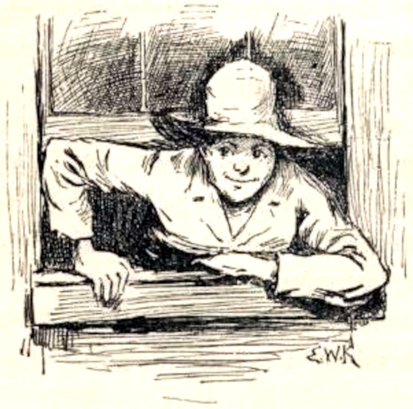 Huck creeps into his window